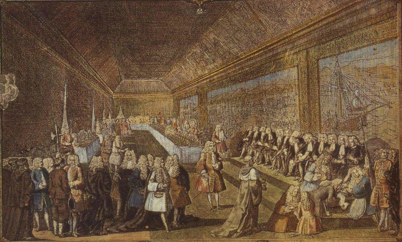 Court function at the Palace of Ribeira in 1748